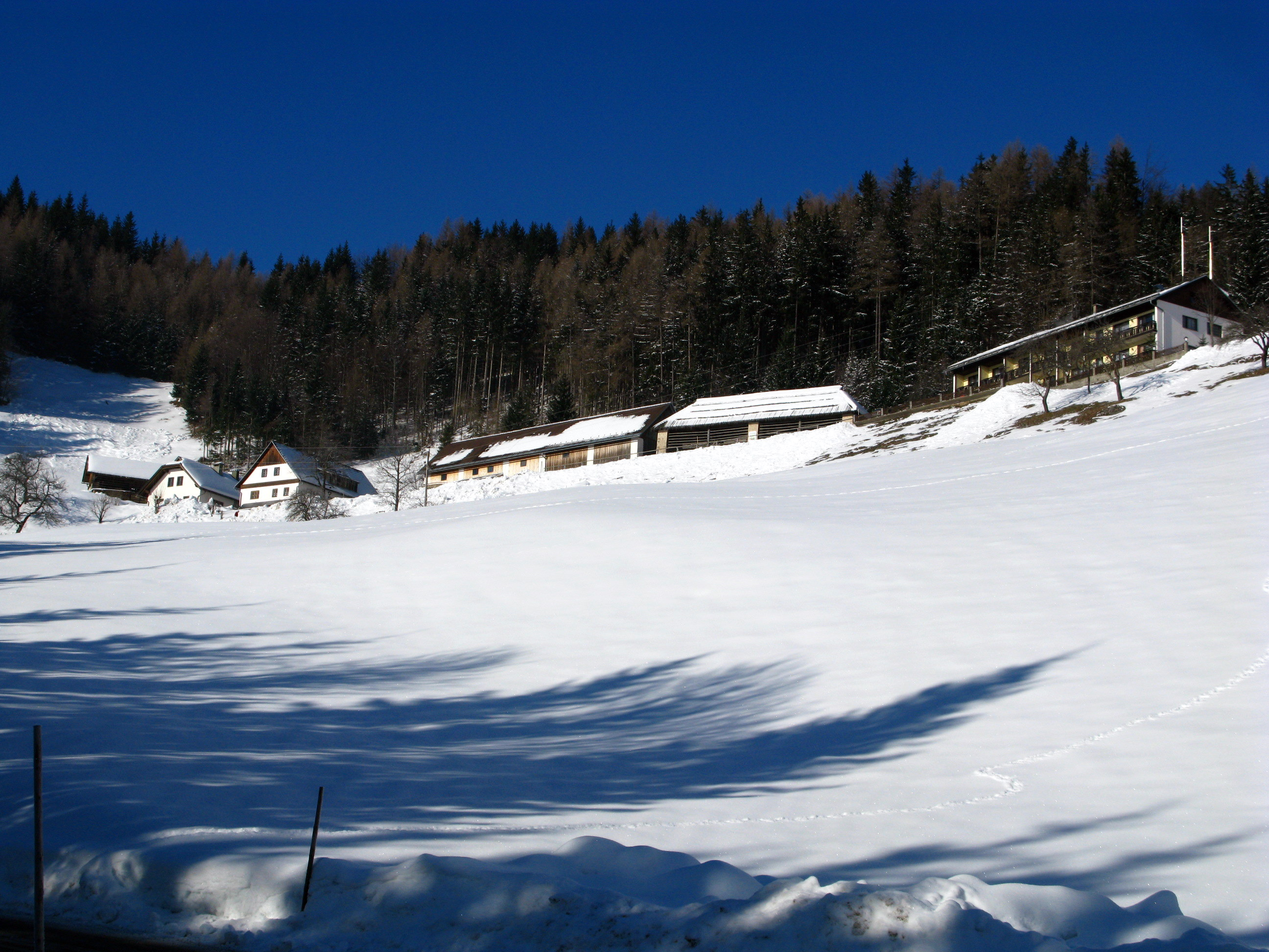 Lausegger farm and hotel at the beginning of Bodental valley in the Karawanken near Ferlach / Carinthia / Austria / EU.